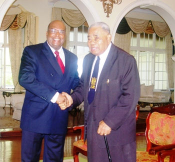 Fiji President Josefa Iloilo (right) shakes hands with the United States Ambassador to Fiji Steven McGann (left)